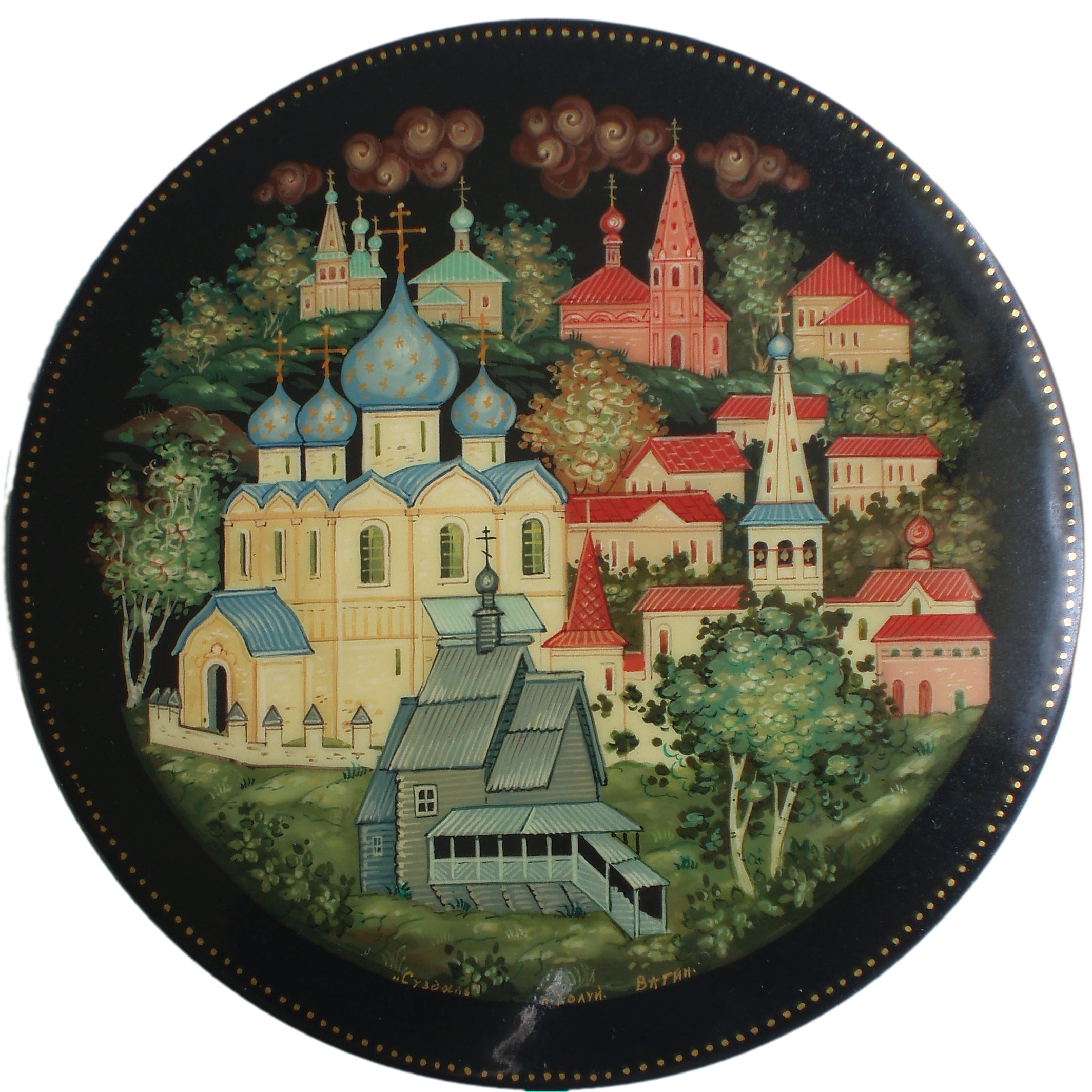 Russian laquered box from Kholui depicting the town of Suzdal